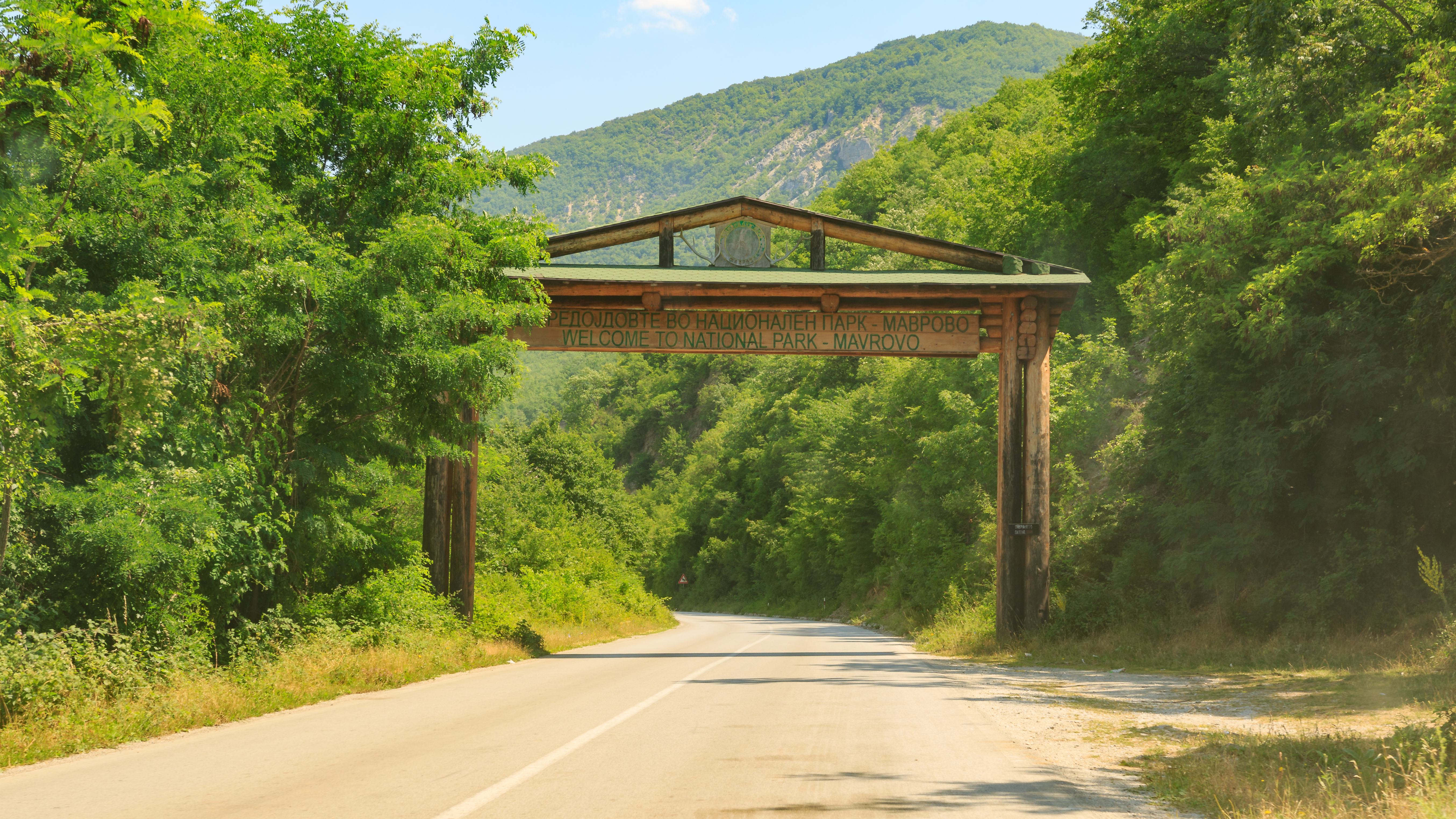 Welcoming sign for the National Park Mavrovo in Macedonia